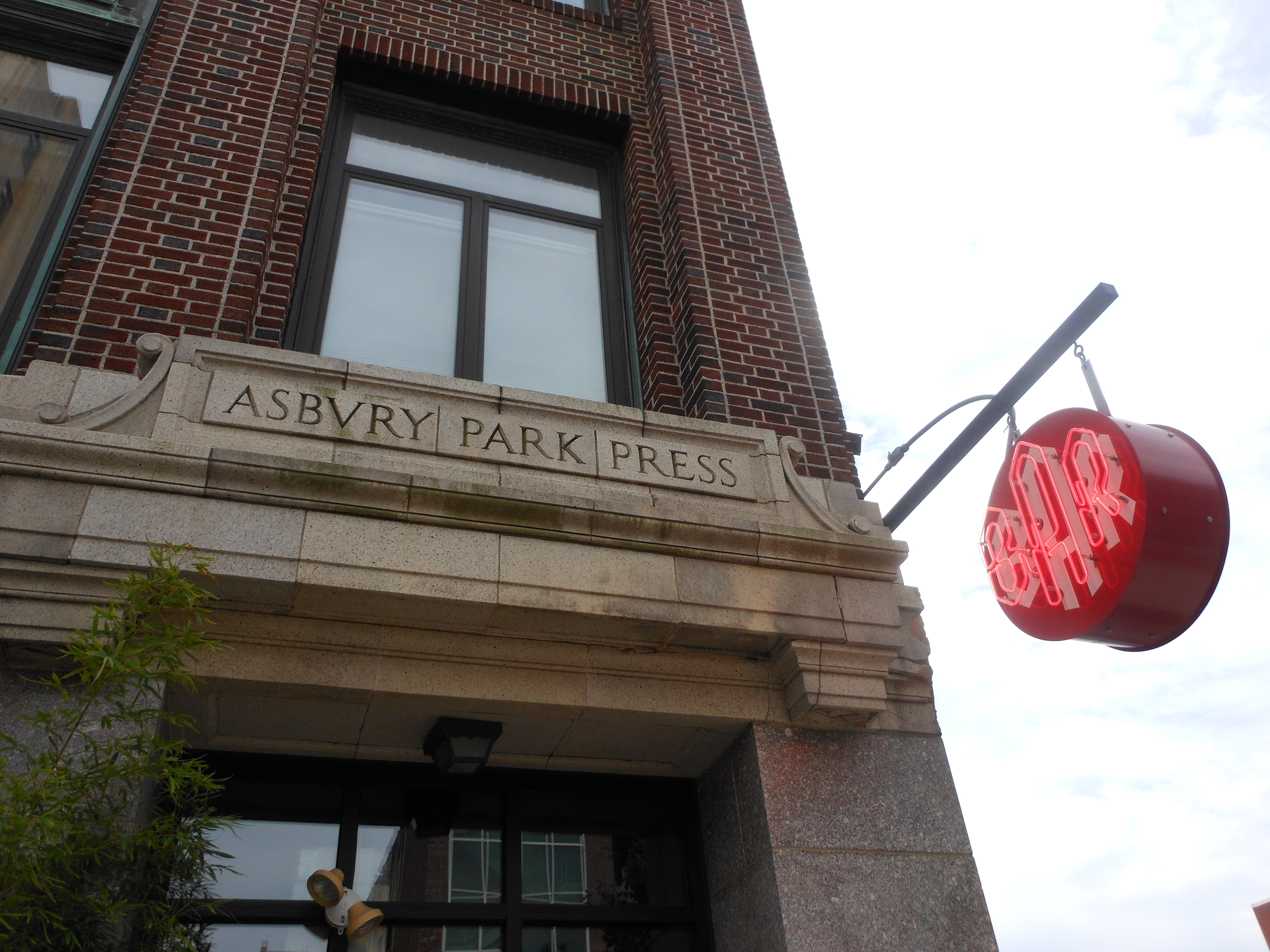 The former Asbury Park Press Building in Asbury Park, NJ. The building was sold when the paper moved to its newly built headquarters in Neptune in 1984.